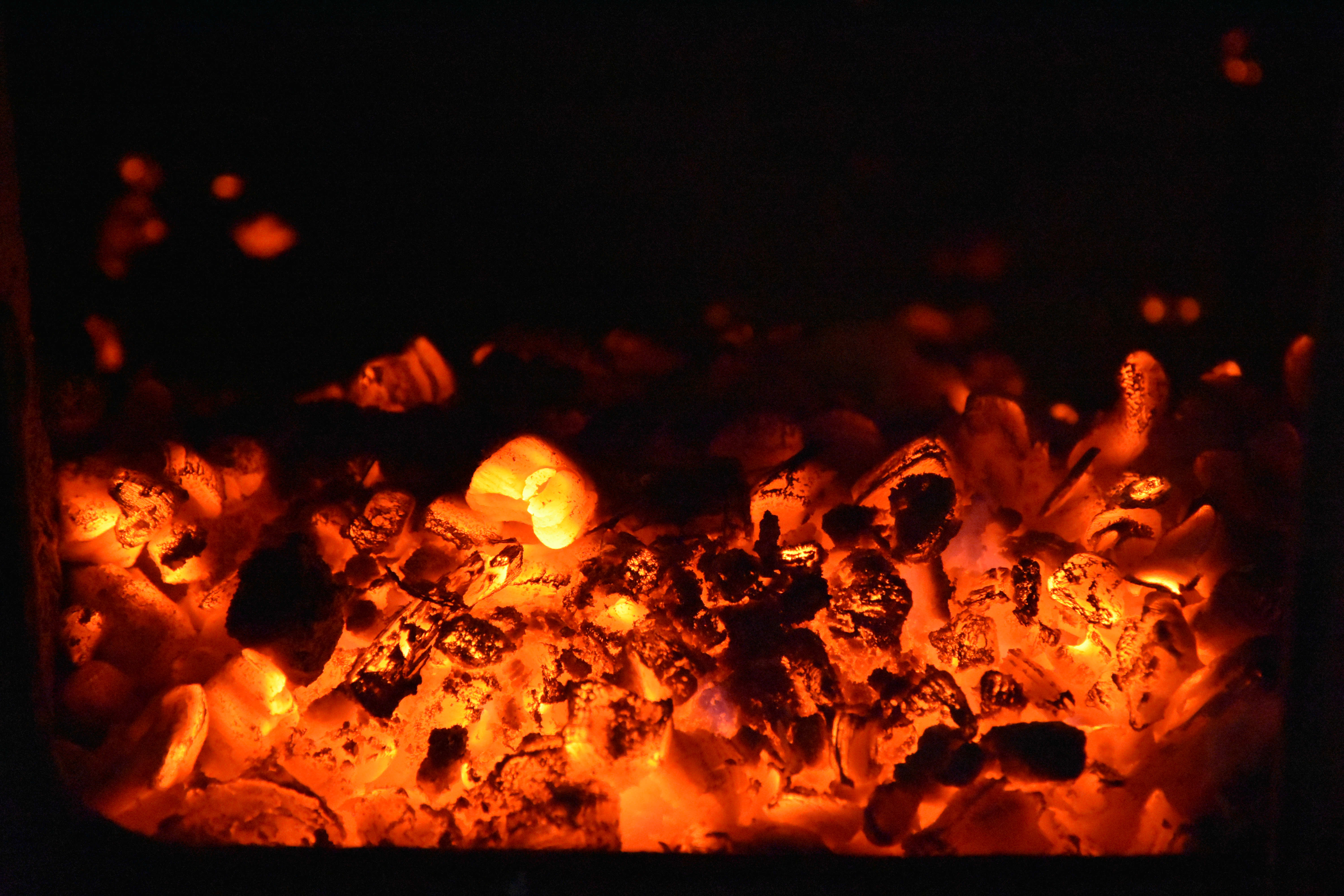 Embers Fire